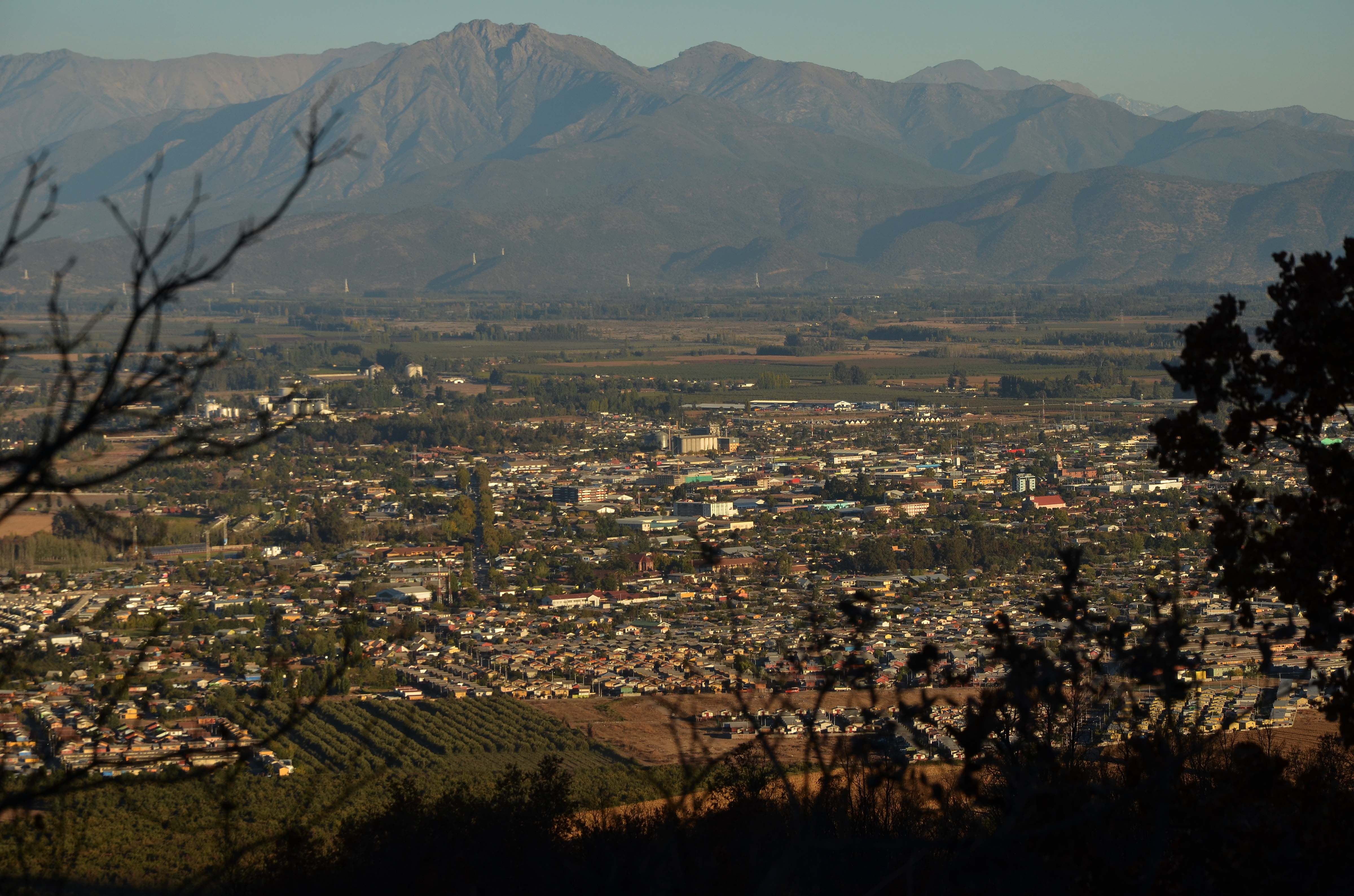 San Fernando city as viewed from Pangalillo.